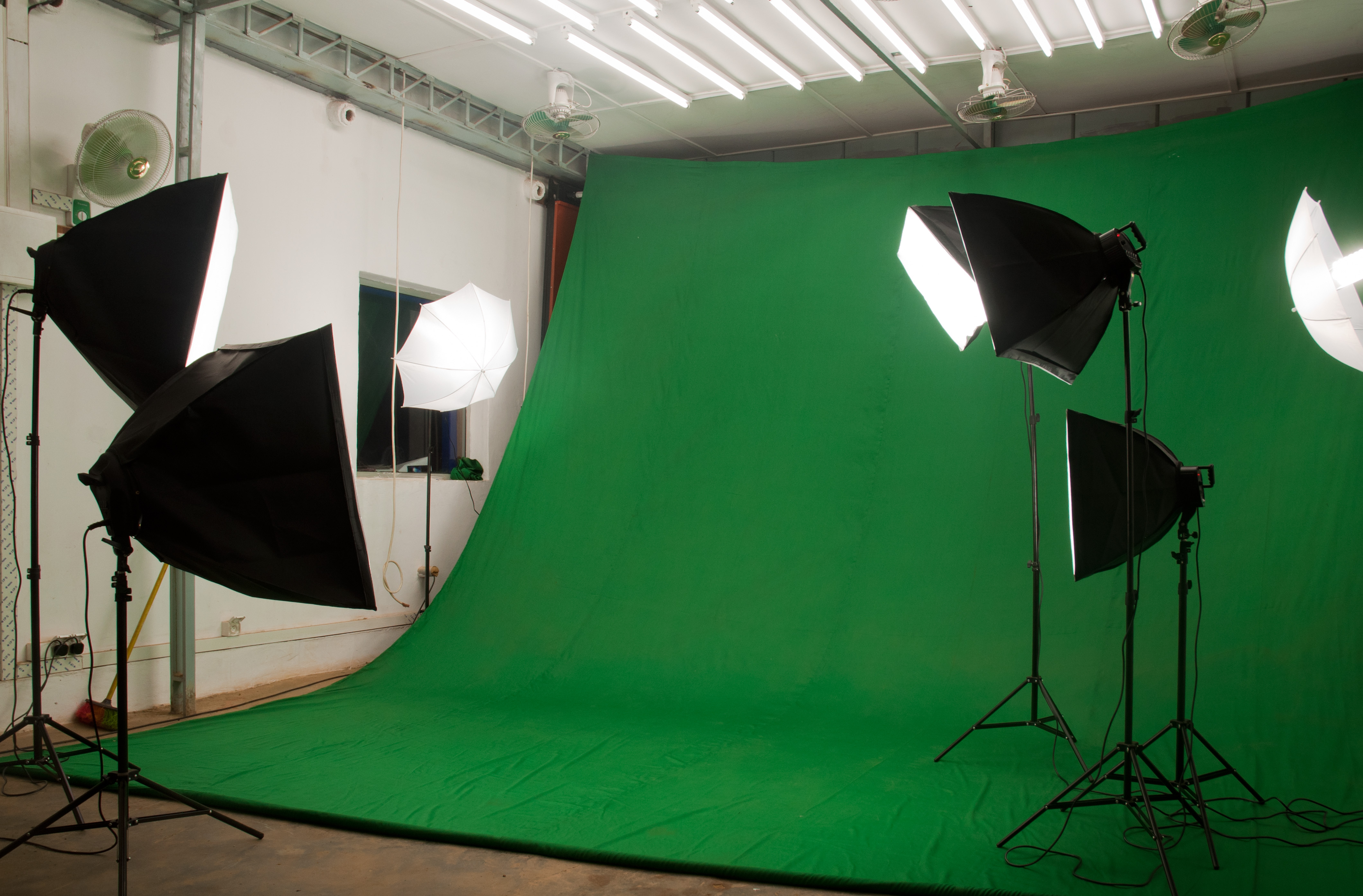 Photography studio in Ouagadougou